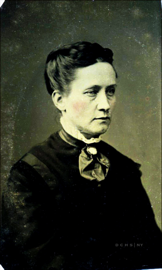 Caroline Morgan Clowes was a painter in the style of the Hudson River School, primarily depicting farm animals in rural Dutchess County settings.